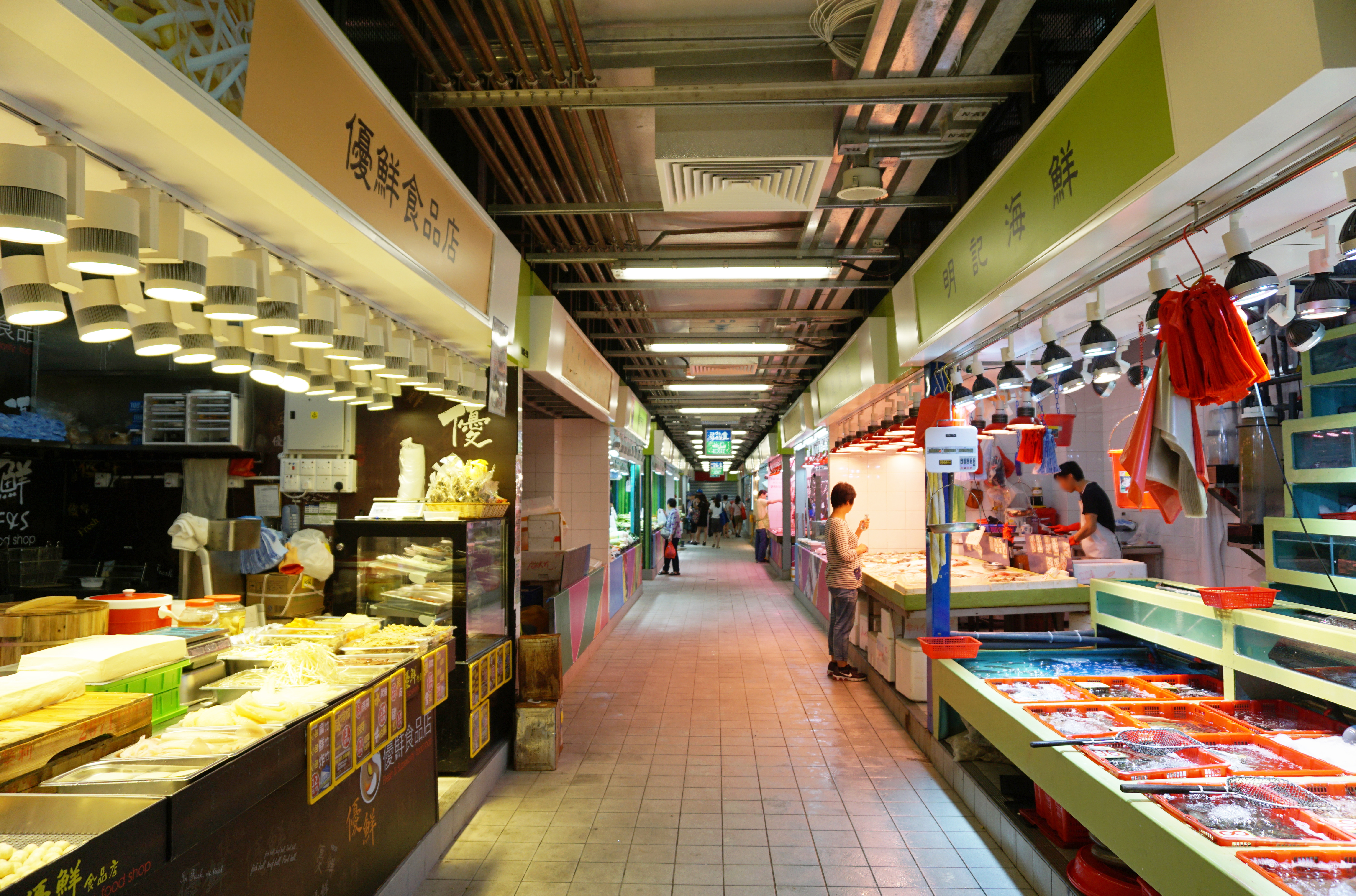 Allmart (Shui Chuen O) Market in Sha Tin Wai, Hong Kong.